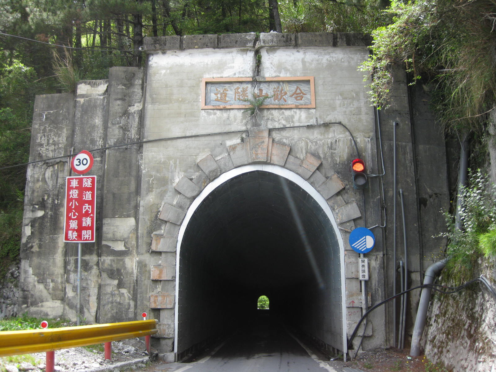 East entrance of the Central Cross-Island Highway Hehuanshan Tunnel that runs through Hehuanshan Ridge.The tunnel is on the county border of Nantou and Hualien in Taiwan.This picture was taken from Dayuling.